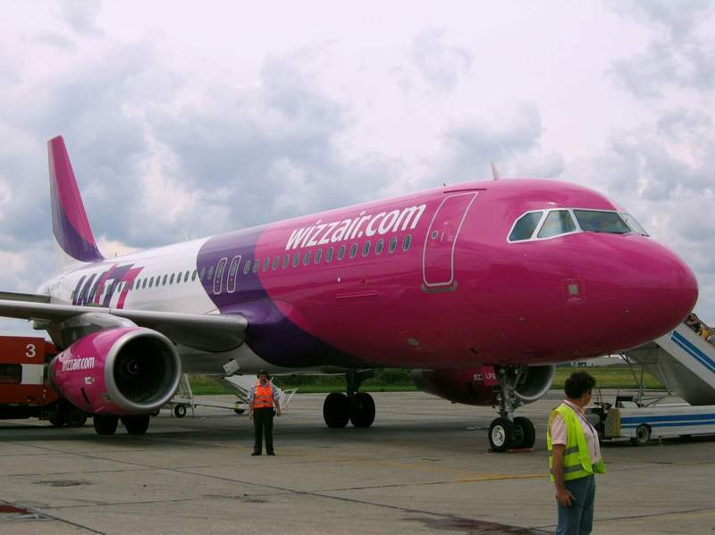 Wizzair A320 at Targu Mures airport